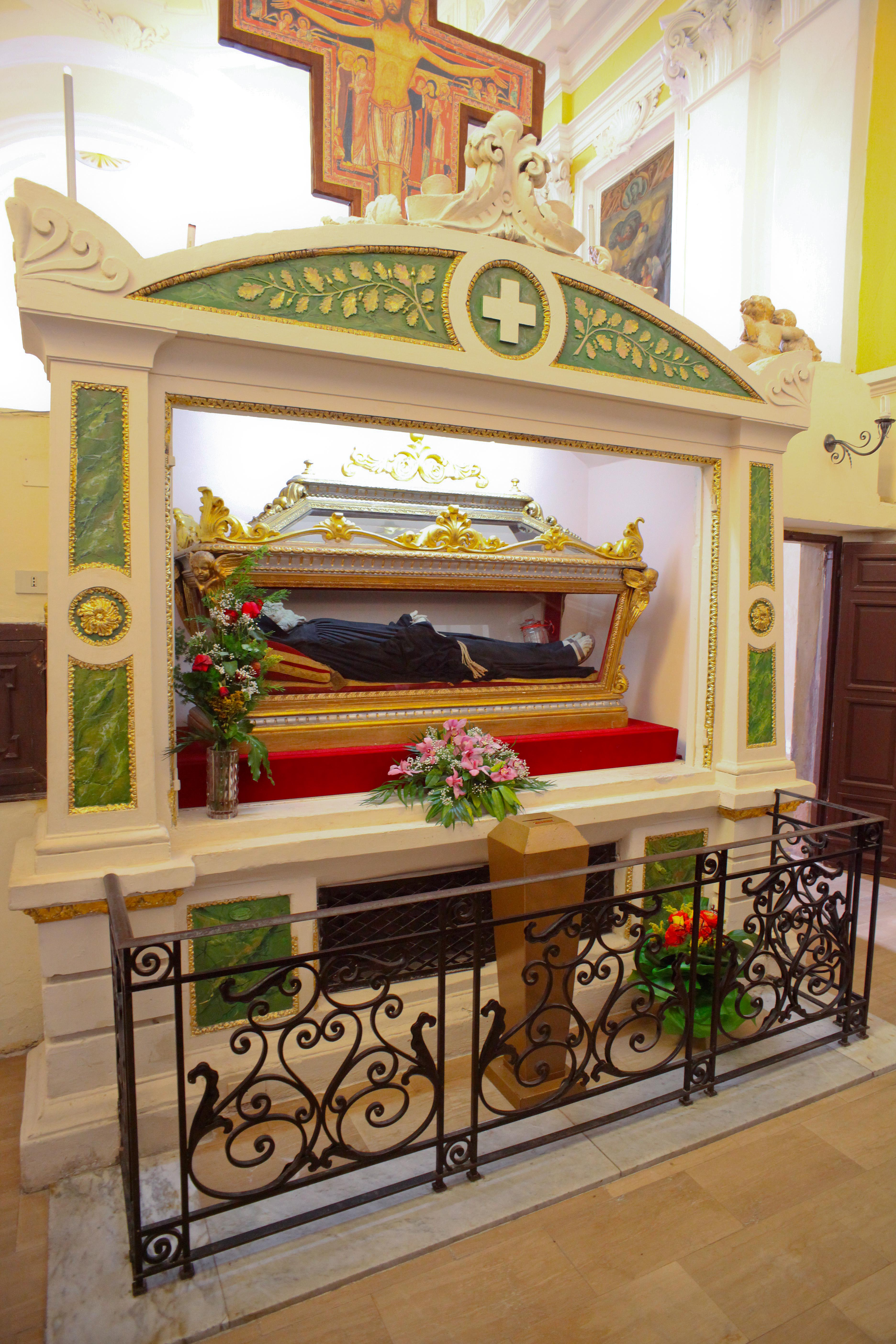 Relic of Saint Nicola Greco in the San Francesco D'Assisi" In Guardiagrele, IT